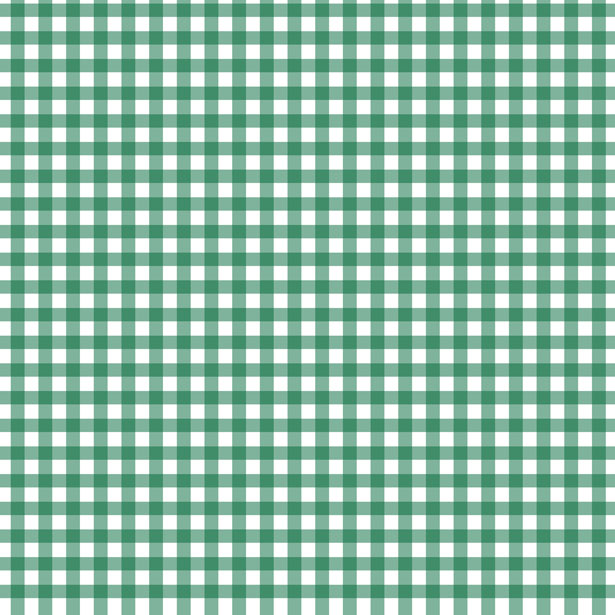 This the skirt pattern for girls uniform of San Pablo City National High School which is still used until today. Used by its annex.